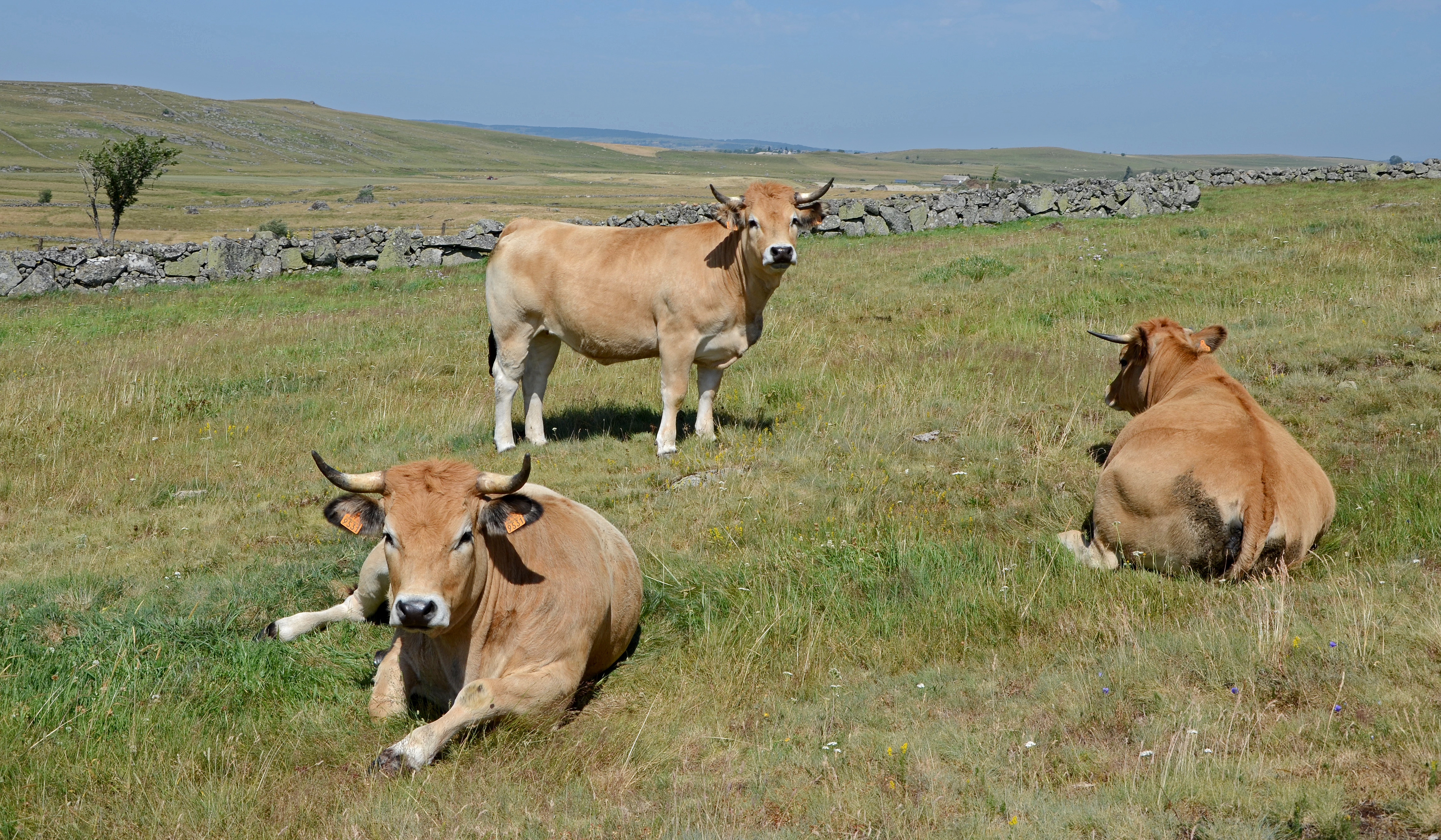 Aubrac cattle, Aubrac plateau near Rieutort, Marchastel,Lozère, France